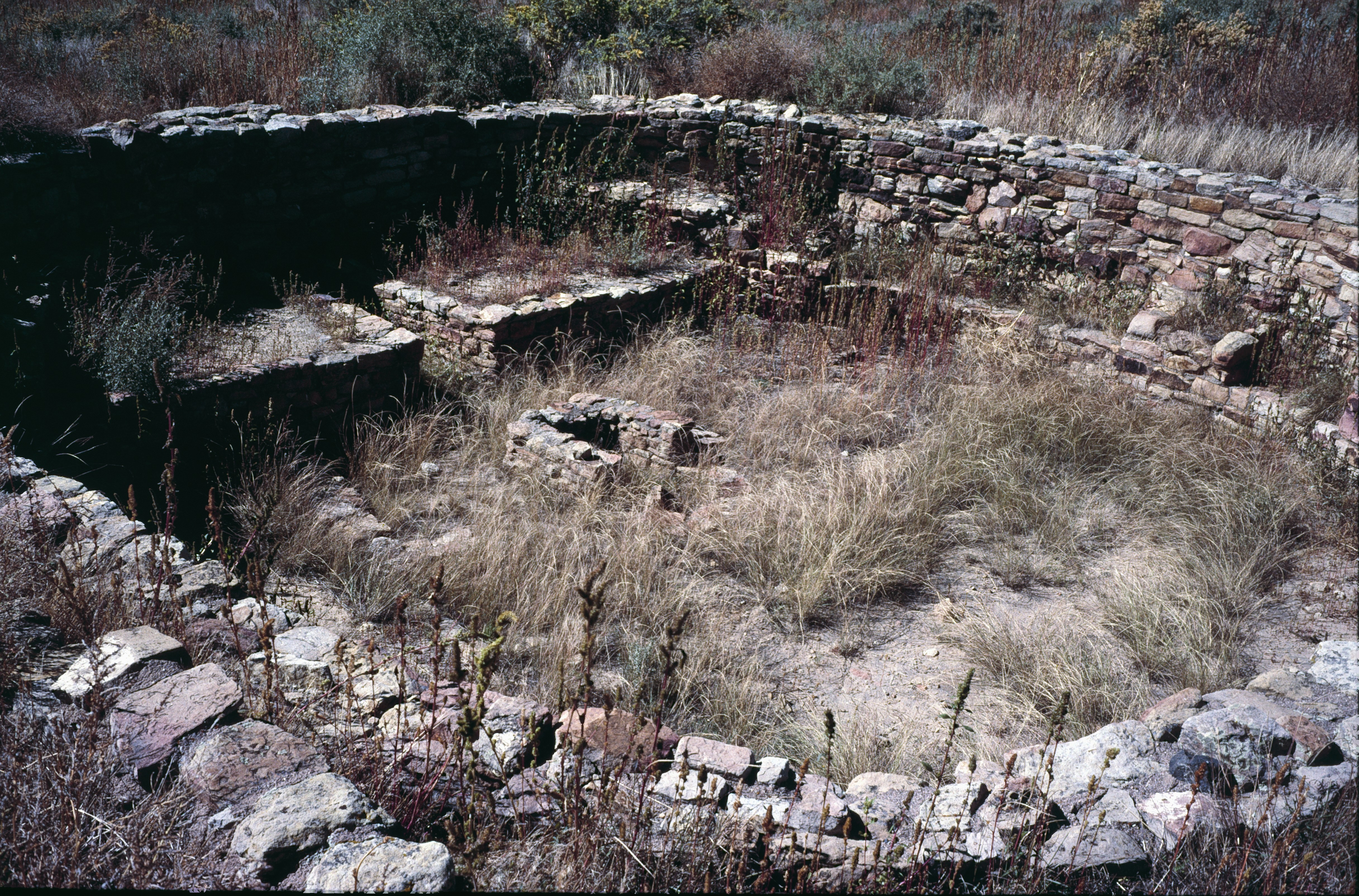 Atsinna Pueblo, El Morro Natl. Monmument, New Mexico: kiva